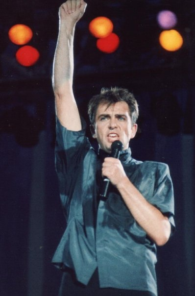 Peter Gabriel performing at the Conspiracy of Hope concert on June 15, 1986 in East Rutherford, NJ.